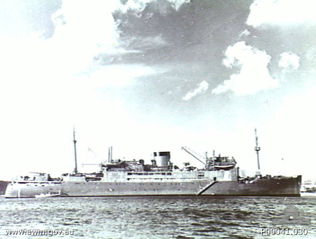 AWM Caption: HMAS MANOORA 1942 - NOTE SEAGULL V AIRCRAFT FORWARD OF FUNNEL. Note: The "Seagull V" aircraft mentioned above is the early name for the Supermarine Walrus.